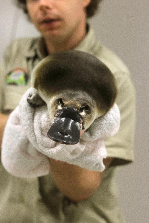 Platypus in Lone Pine Koala Sanctuary